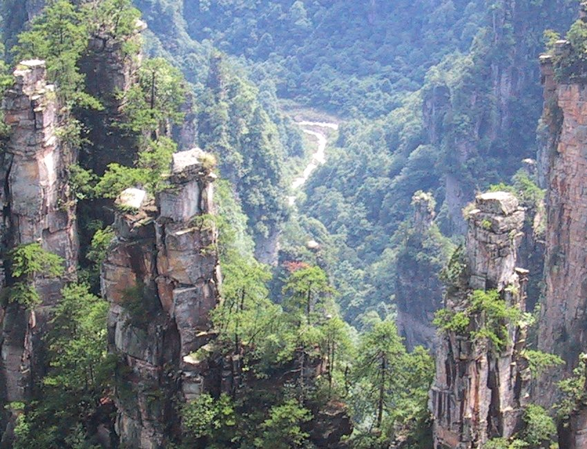 I took this photo myself in Wulingyuan in June 2004. This photo was taken from Tianzishan. It shows some of the quartzite sandstone pillars that this region is so famous for.